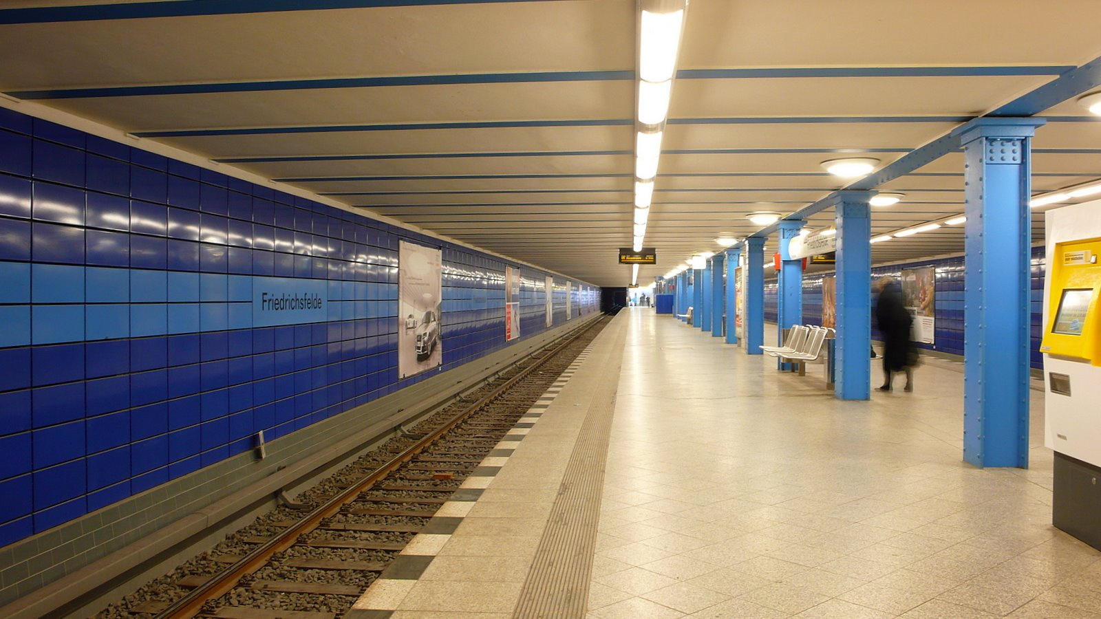 Subway Berlin Friedrichsfelde